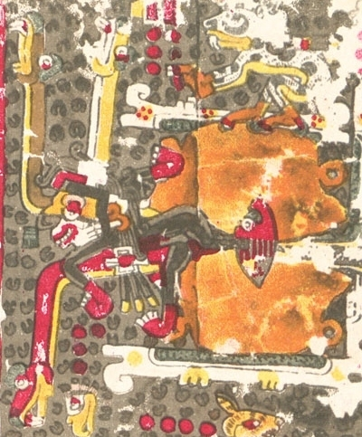 Xolotl